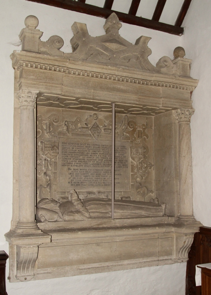 Church of England parish church of St Mary the Virgin, Black Bourton, Oxfordshire: monument to Eleanor Hungerford